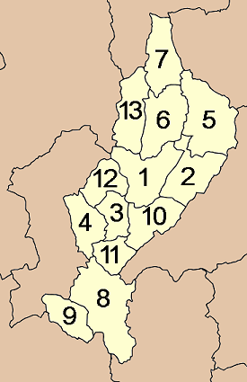 Map of the province Lampang with the districts (Amphoe) numbered. Mueang Lampang (อำเภอเมืองลำปาง) Mae Mo (อำเภอแม่เมาะ) Ko Kha (อำเภอเกาะคา) Soem Ngam (อำเภอเสริมงาม) Ngao (อำเภองาว) Chae Hom (อำเภอแจ้ห่ม) Wang Nuea (อำเภอวังเหนือ) Thoen (อำเภอเถิน) Mae Phrik (อำเภอแม่พริก) Mae Tha (อำเภอแม่ทะ) Sop Prap (อำเภอสบปราบ) Hang Chat (อำเภอห้างฉัตร) Mueang Pan (อำเภอเมืองปาน)